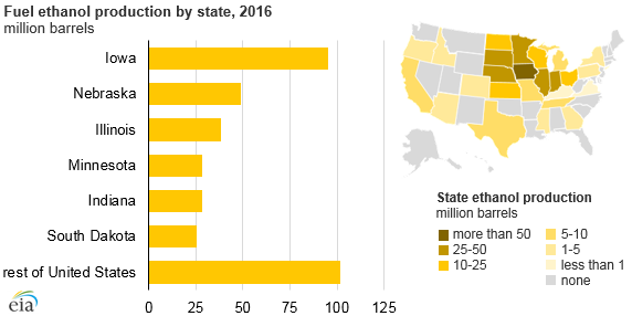 Six states accounted for 72% of U.S. fuel ethanol production in 2016, according to the most recent estimates from EIA’s State Energy Data System. August 15, 2018